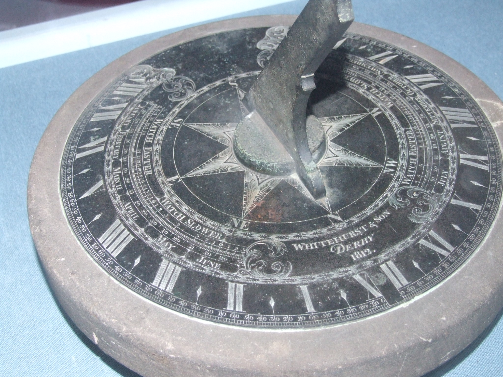 1812 sundial made by Whitehurst & Son of Derby and set for Belper